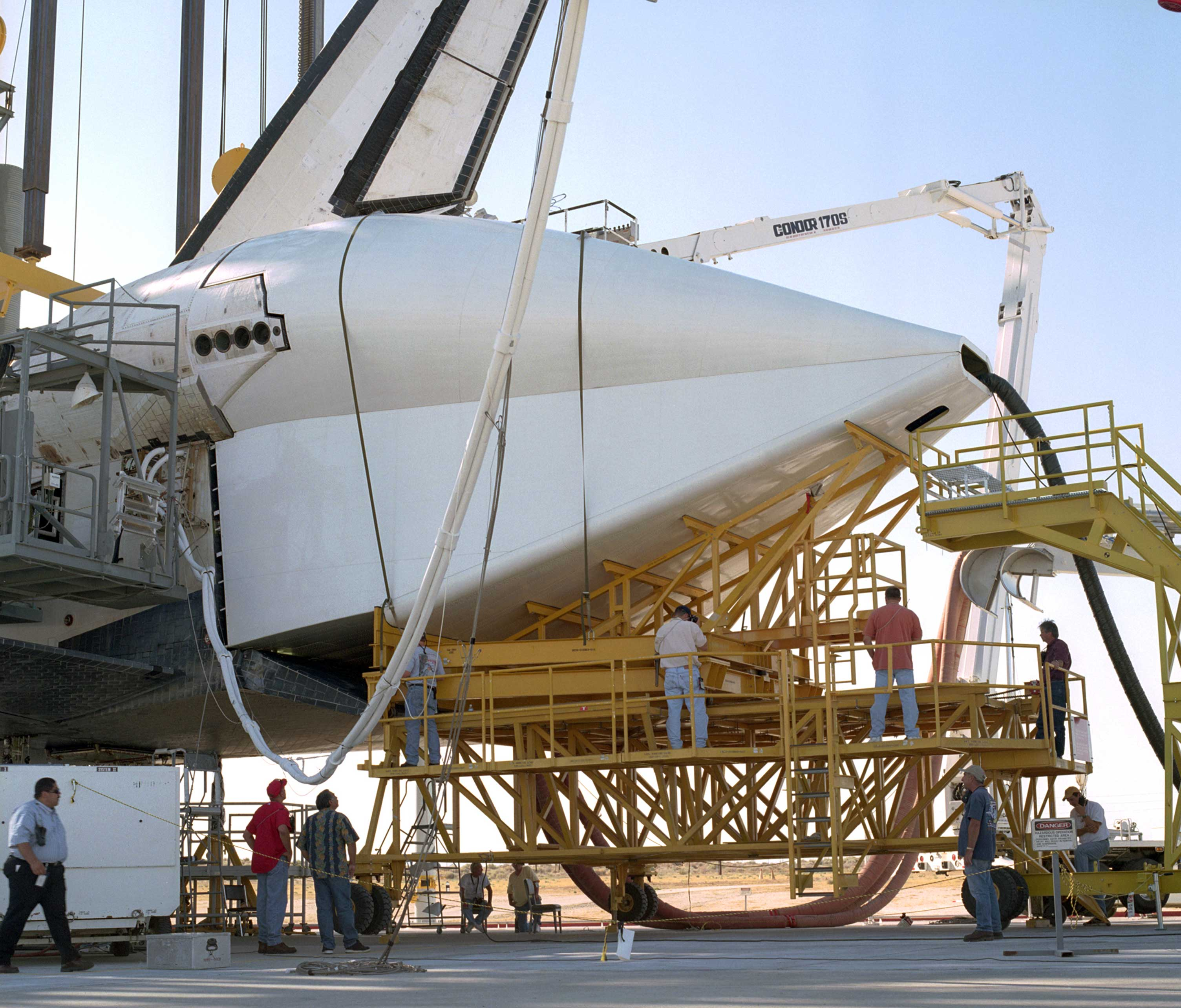 Technicians attach the tail cone, which helps reduce aerodynamic drag and turbulence during its ferry flight, to the Space Shuttle Discovery. After the tail-cone is installed, Discovery will be mounted on NASA’s modified Boeing 747 Shuttle Carrier Aircraft, or SCA, for the return flight. The tail cone is a fitting that helps reduce aerodynamic drag and turbulence during its ferry flight. (NASA photo by Carla Thomas)